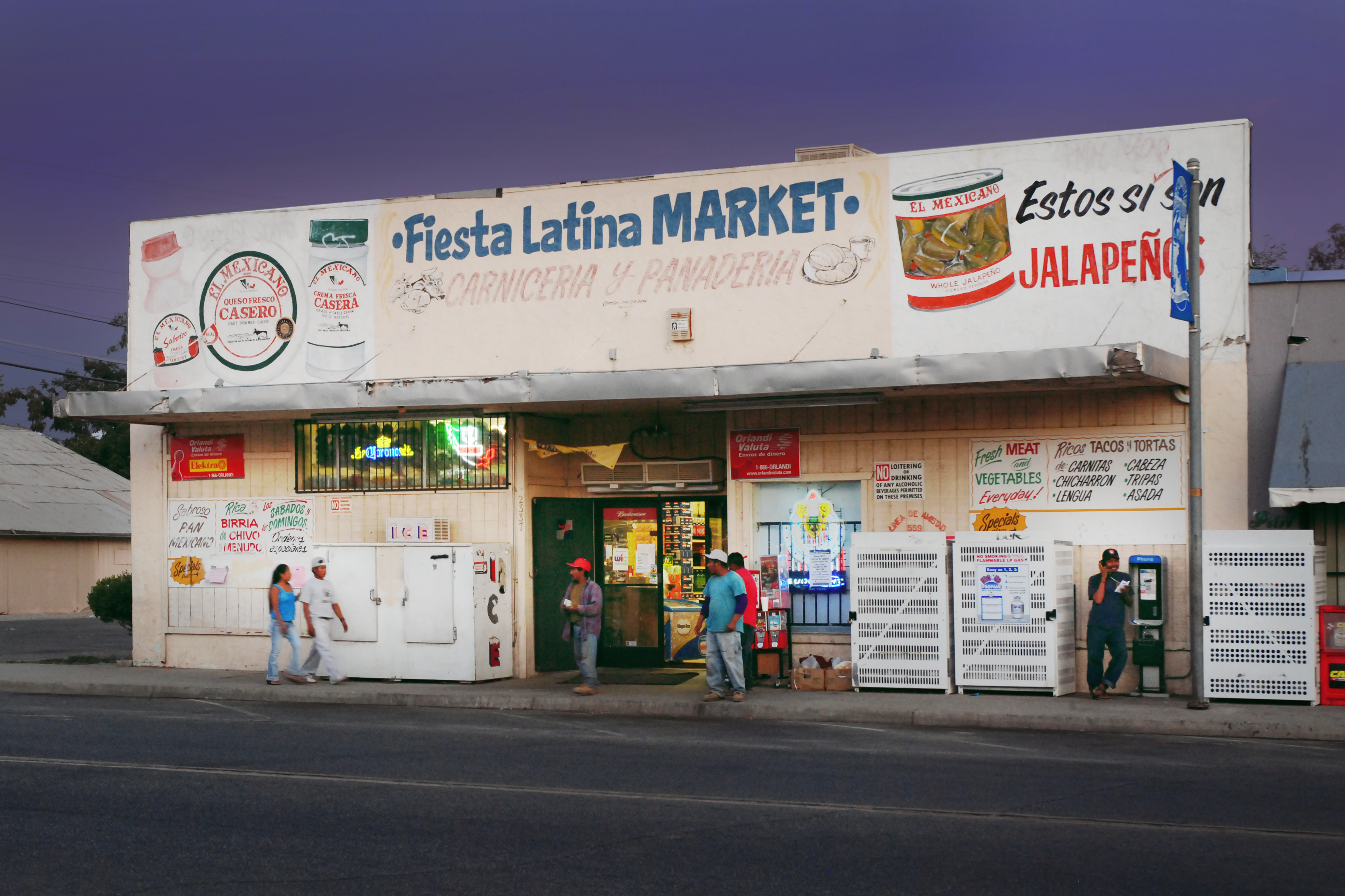 Evening view in the downtown area.